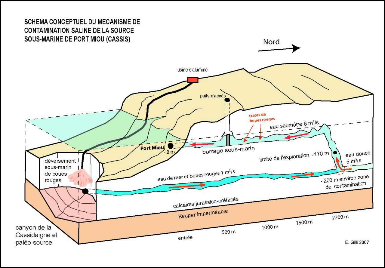 Submarine karst springs, "Port Miou", Cassis, Marseille. The karst springs of two submarine karst conduits are result of the complete desiccation of the Mediterranean Sea in late Miocene.